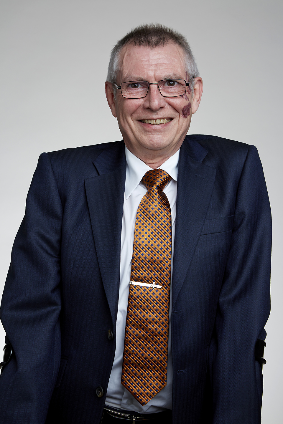 James Ivor Prosser (born July 1951) FRS FRSE OBE is a Professor in Environmental Microbiology in the Institute of Biological and Environmental Sciences at the University of Aberdeen. Attribution: The Royal Society